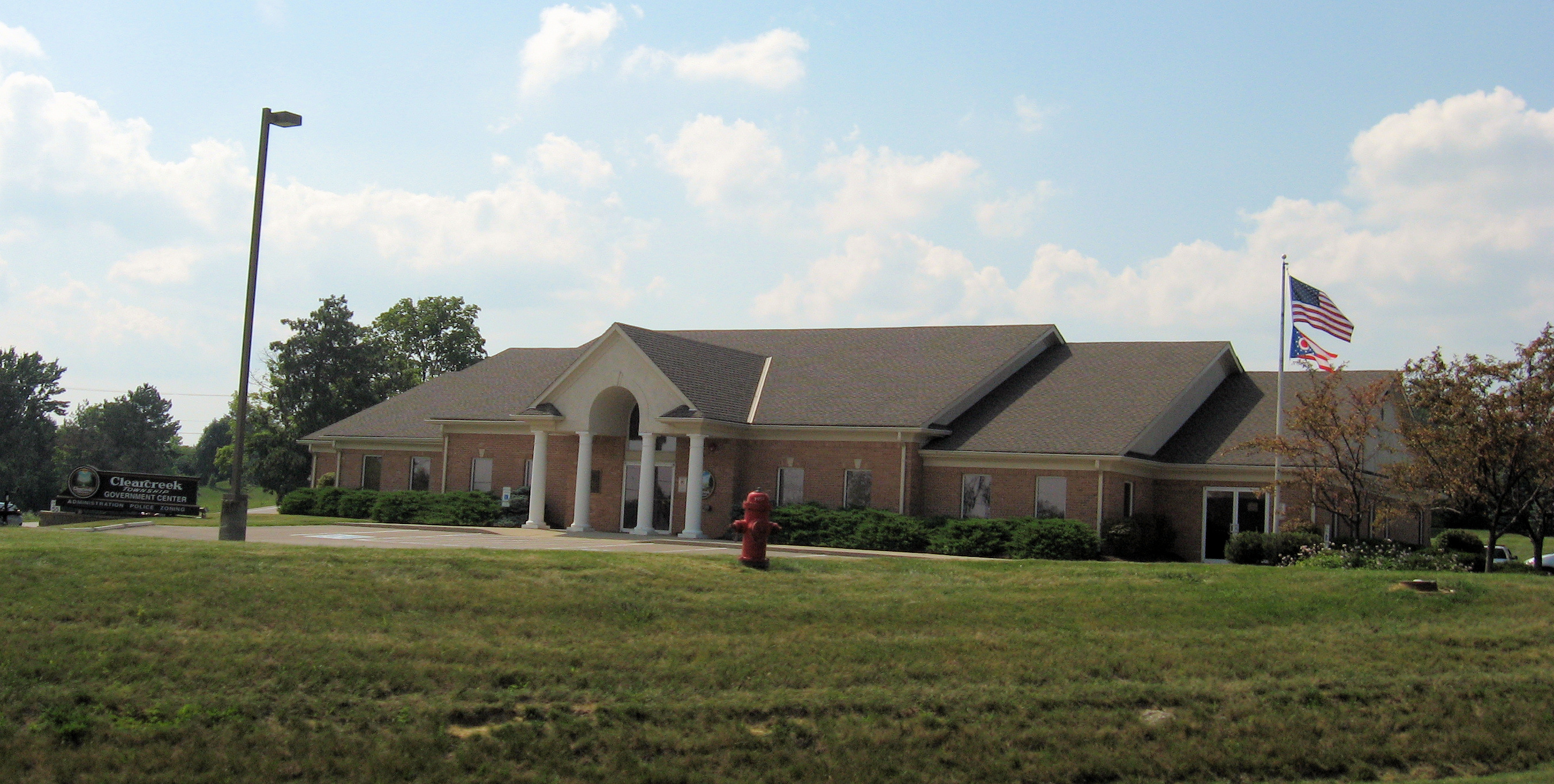 Clearcreek Township Government Building near Springboro, Ohio, USA